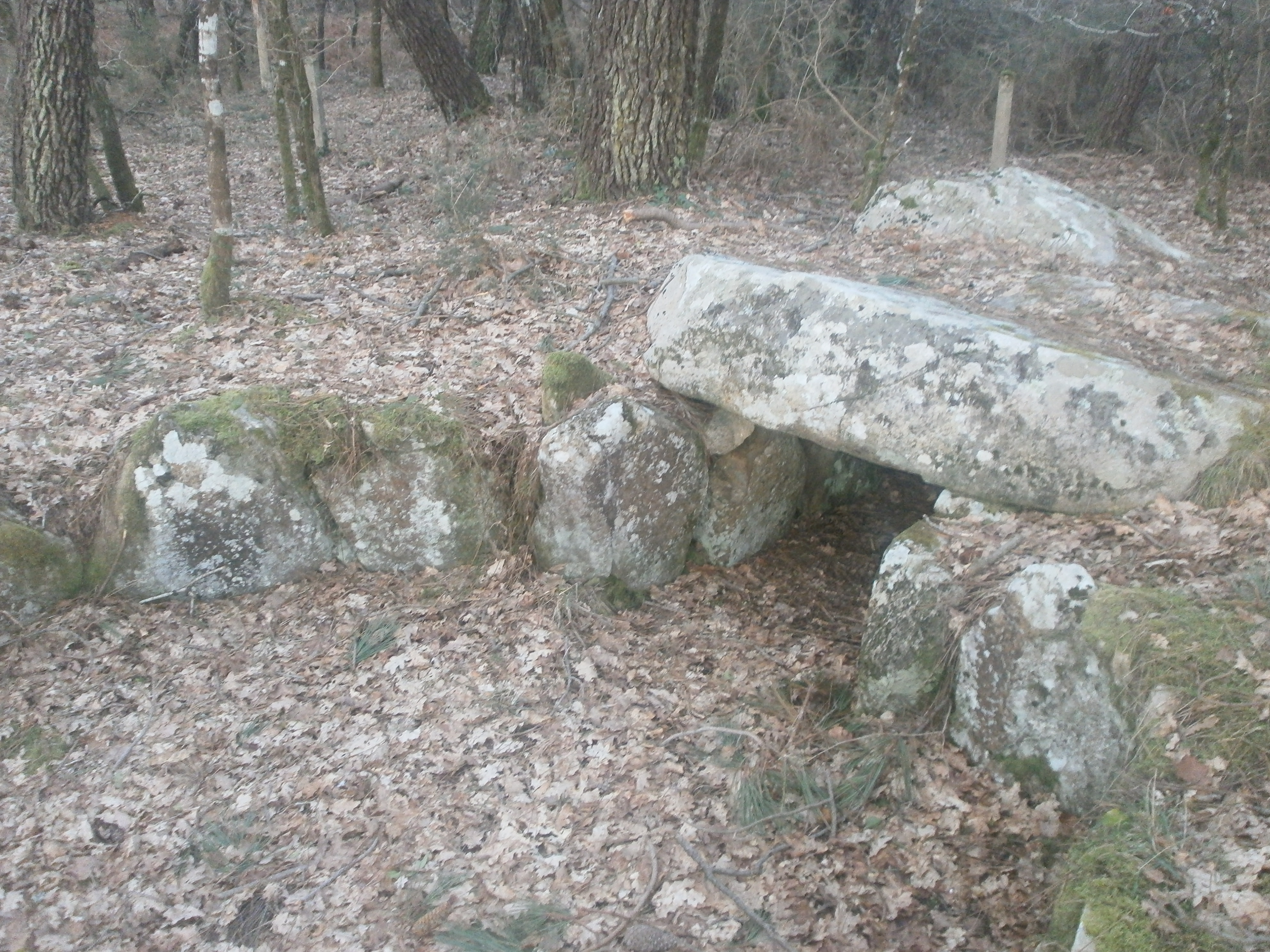 Site mégalithique près de Carnac